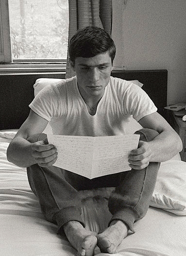 Fernando Atzori at the Tokyo Olympics. Tokyo, October 1964